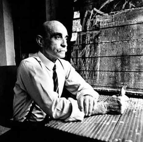 Lucio Fontana photographed by Lothar Wolleh